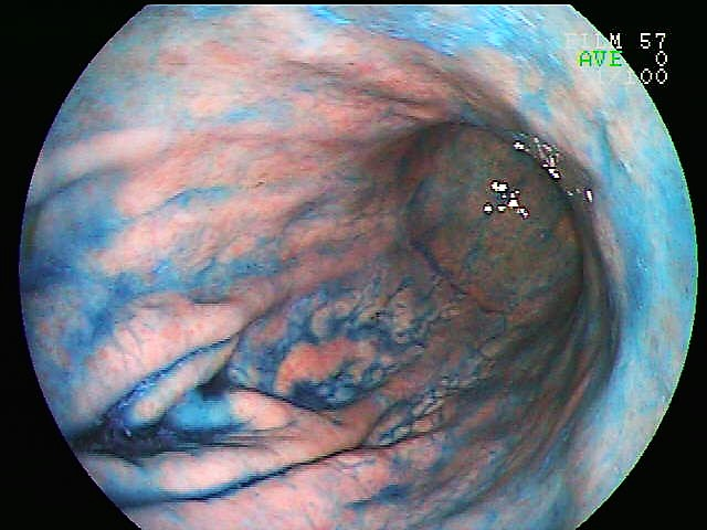 Indigo carmine staining(stmach), Upper gastrointestinal endoscopy, 72 y. o., male.